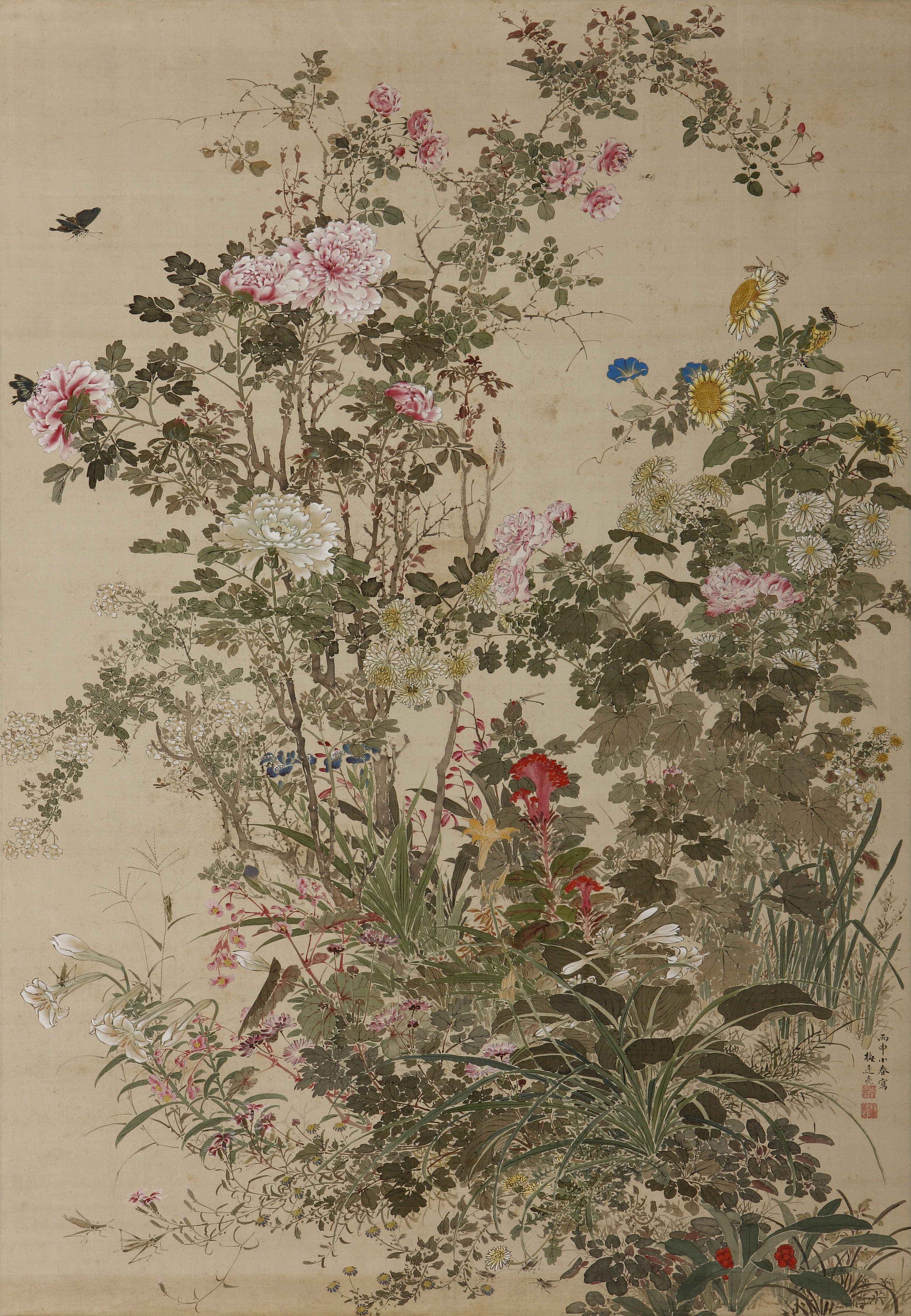 Flowers and Insects, by Yamamoto Baiitsu, Nomura Art Museum, Kyoto, Kyoto, Japan